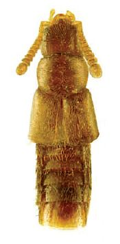 Lectotype of Alisalia bistriata.